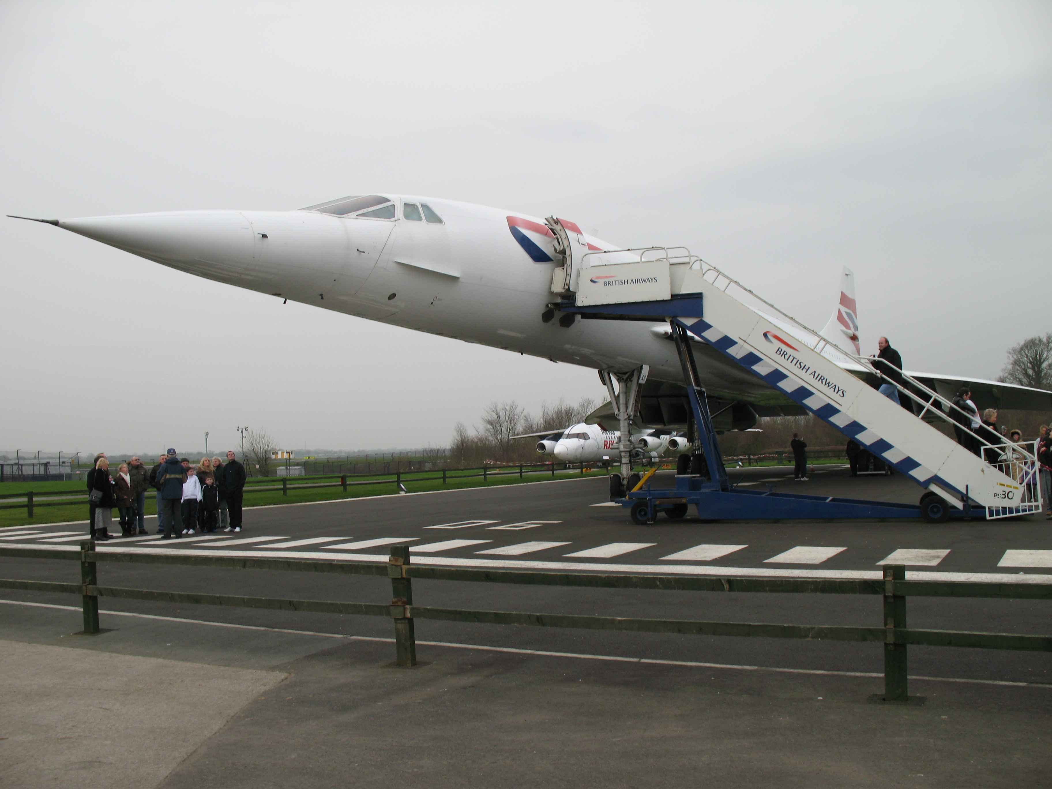 Concorde at the AVP